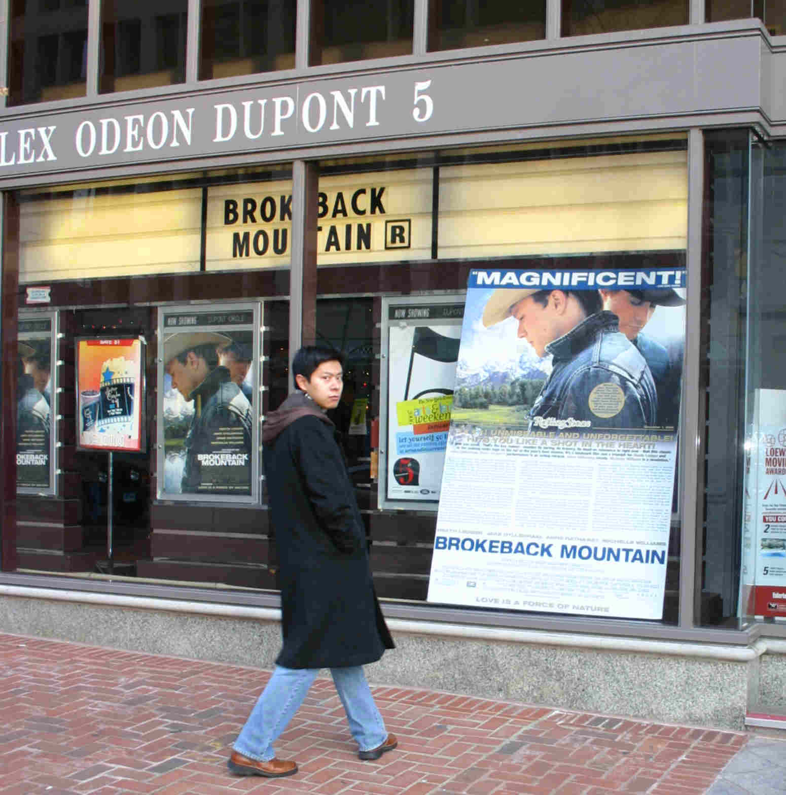 2006 PHOTOGRAPHS NEVER BEFORE SEEN 2007 . News Years Day 2006 at the Movies . Brokeback Mountain . Cineplex Odeon Dupont Circle 5 . 1350 Connecticut Avenue, NW . WDC . Sunday afternoon, 1 January 2006 . . Elvert Xavier Barnes Photography